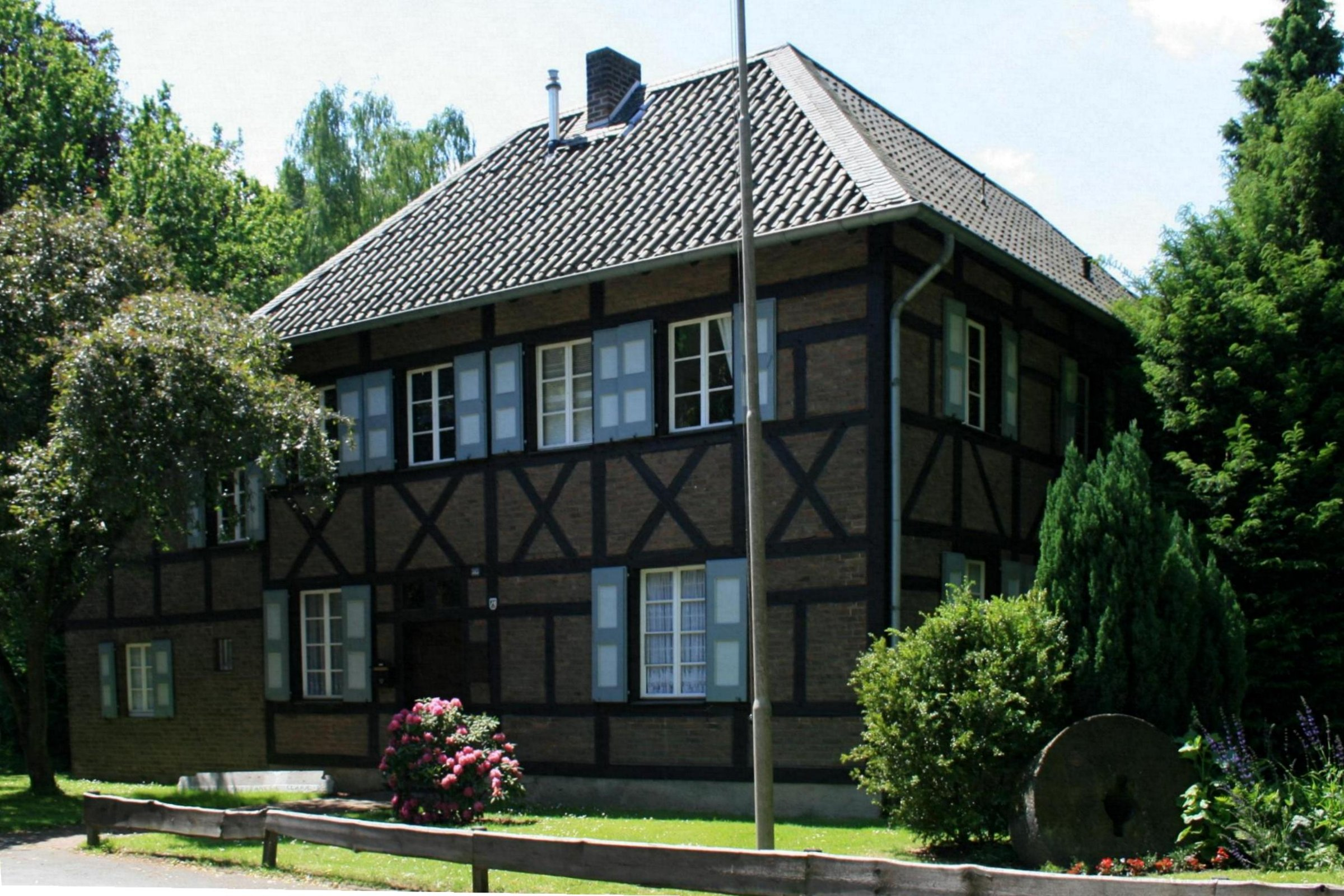 Cultural heritage monument No. E 006 in Mönchengladbach